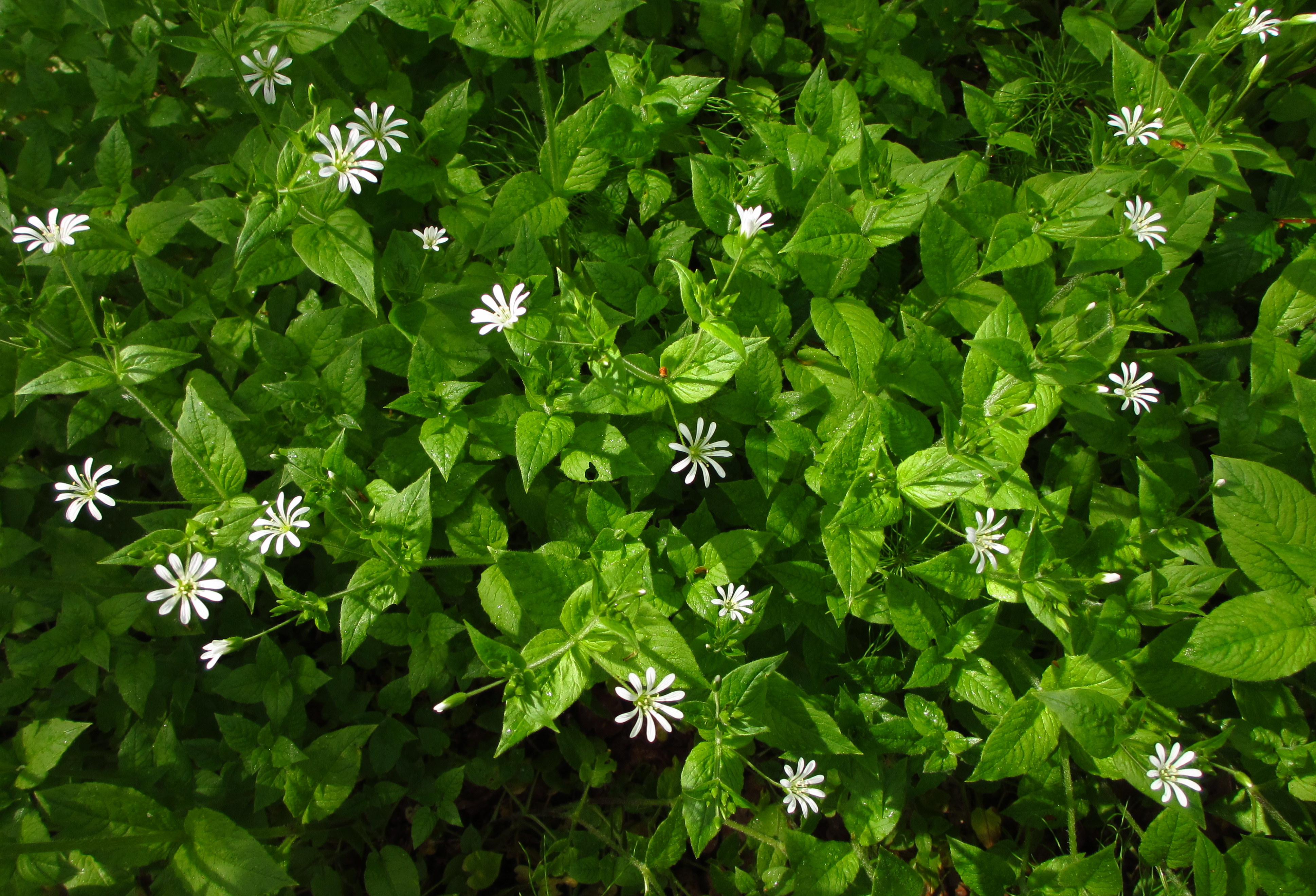 Stellaria nemorum in Estonia.